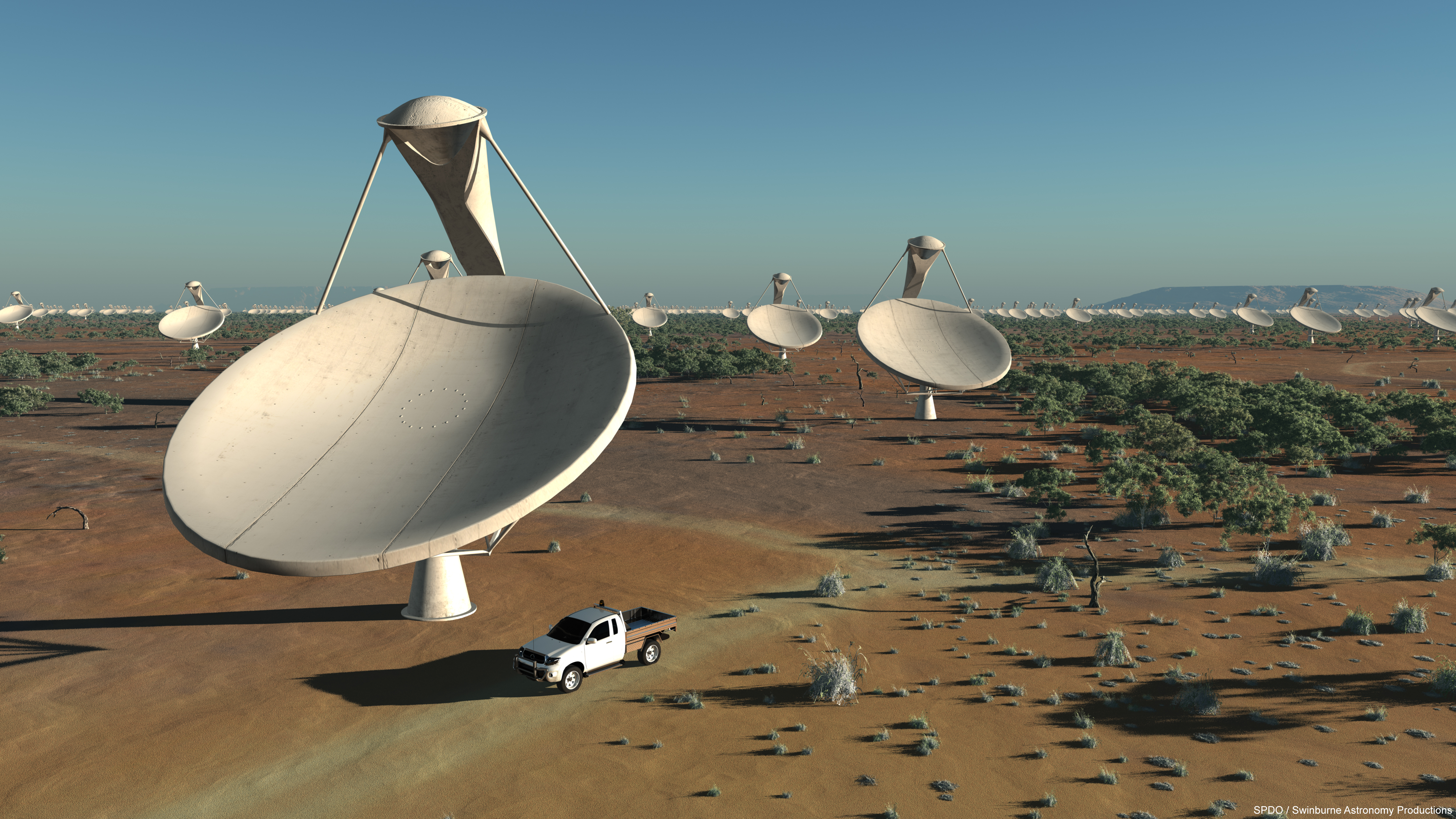 Artist's impression of the 15m x 12m Offset Gregorian Antennas within the central core of thr Square Kilometre Array.